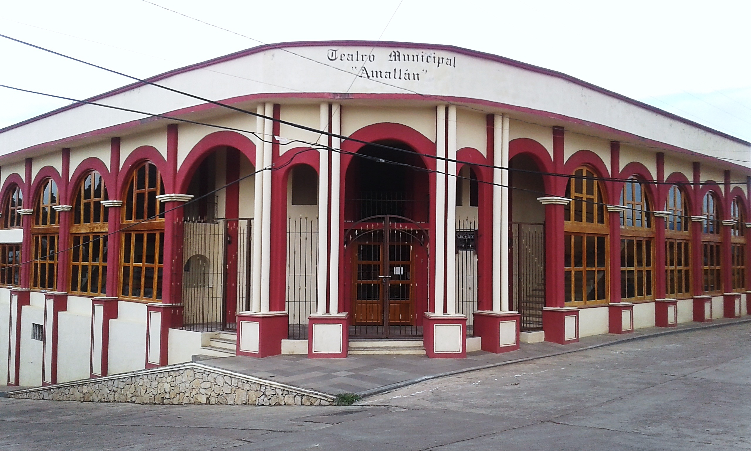 Municipal theater